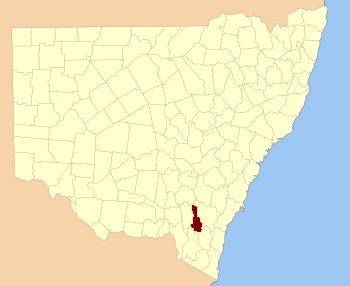 Location of Cowley county in New South Wales, one of the Cadastral divisions of New South Wales